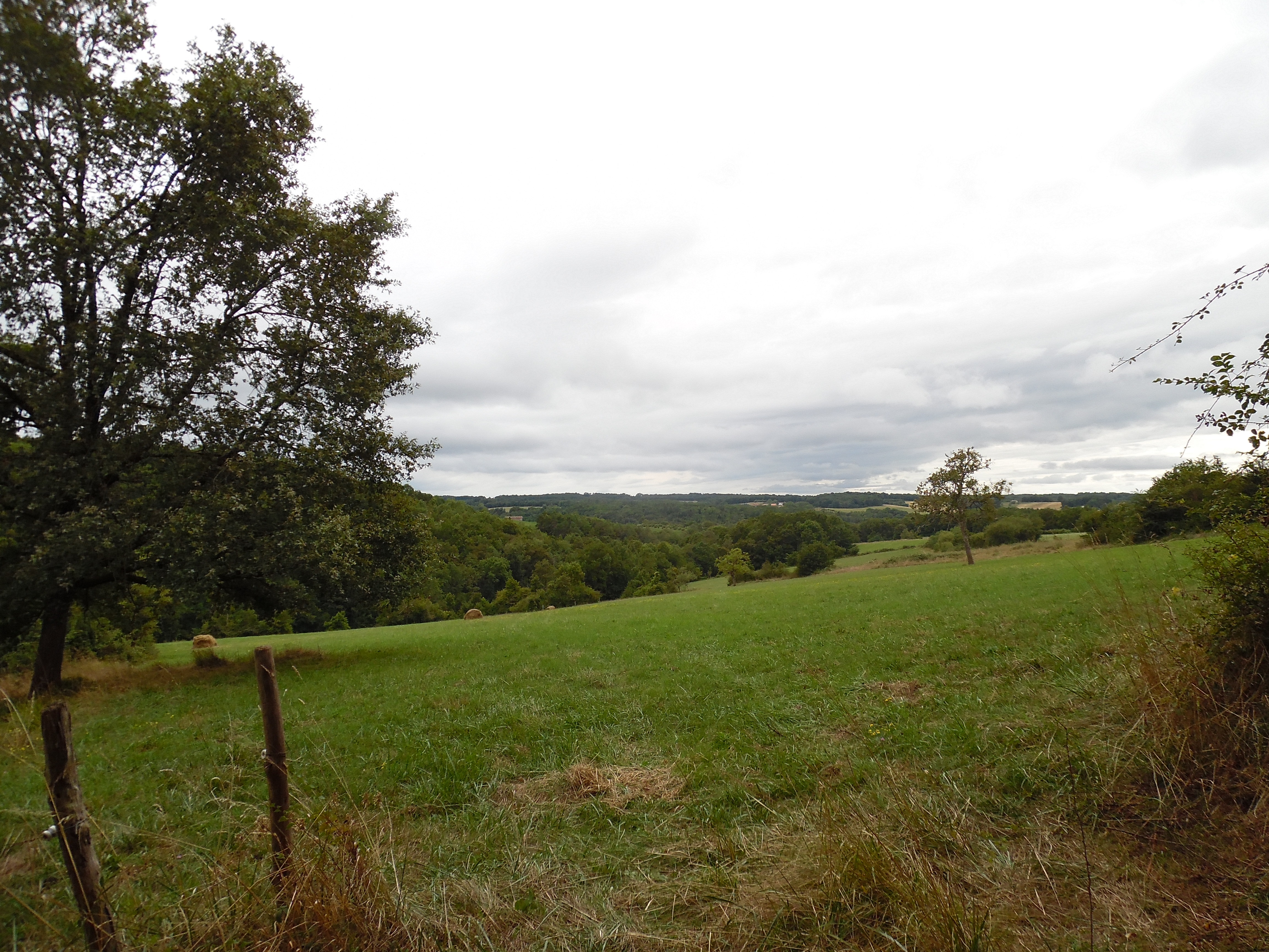 Looking south from Talivaud into the valley of the Ruisseau de Vergnes, the border creek between Saint-Martin-le-Pin and Nontron, Dordogne, France. The creek flows southwest into the river Bandiat.